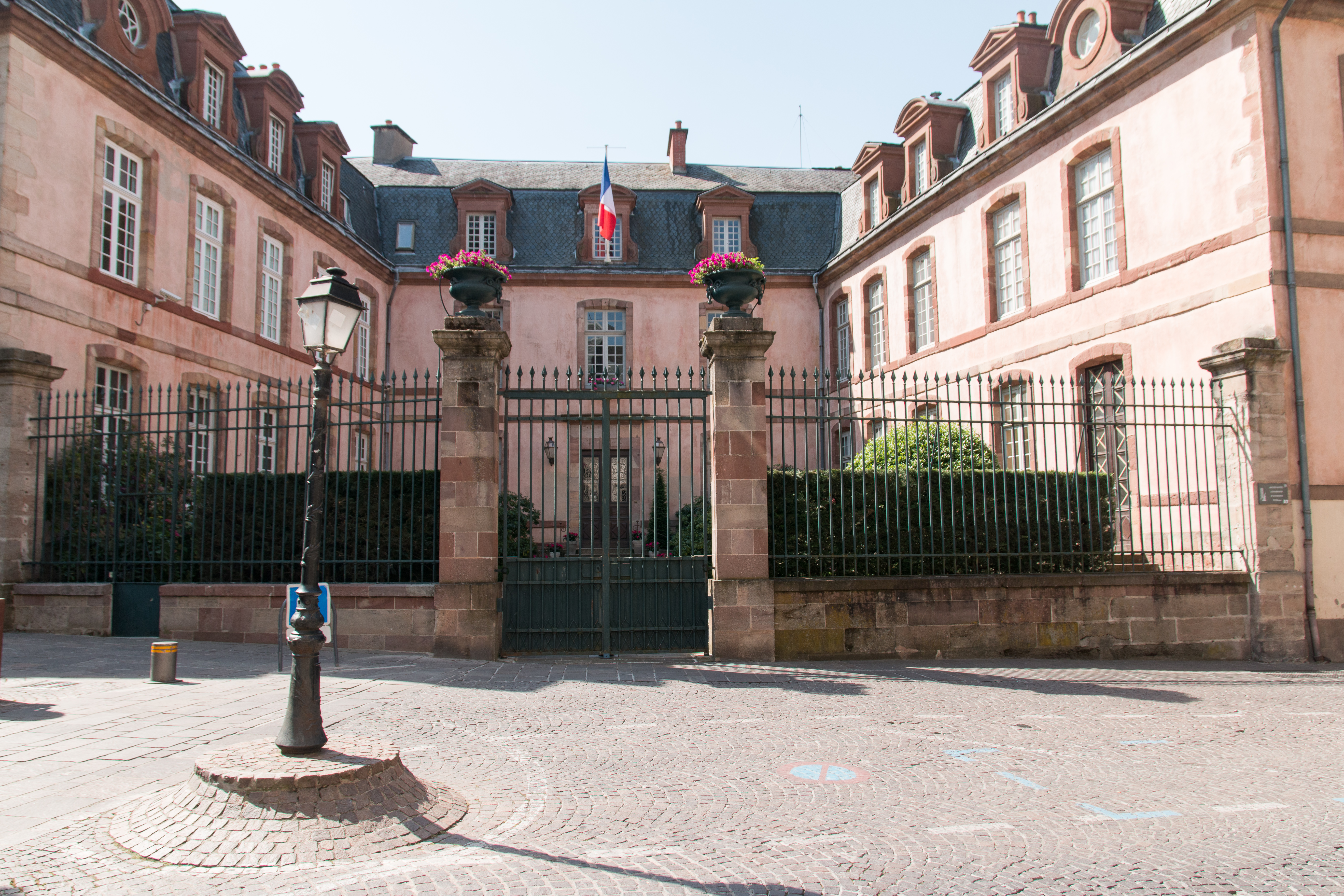 Mansion Le Normant Ayssènes, currently Avetron's prefecture.